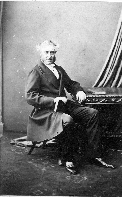 Sir T.W. White 2nd Baronet of Tuxford and Wallingwells in his old age.